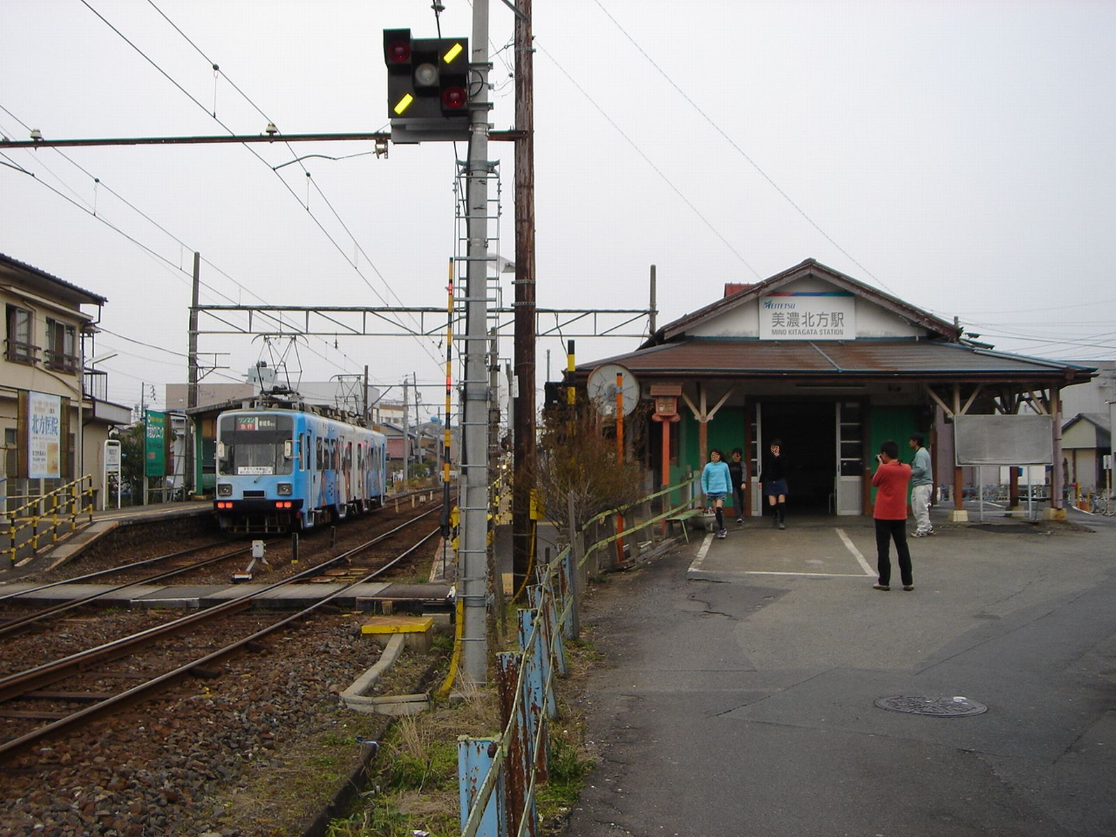 Mino-kitagata station